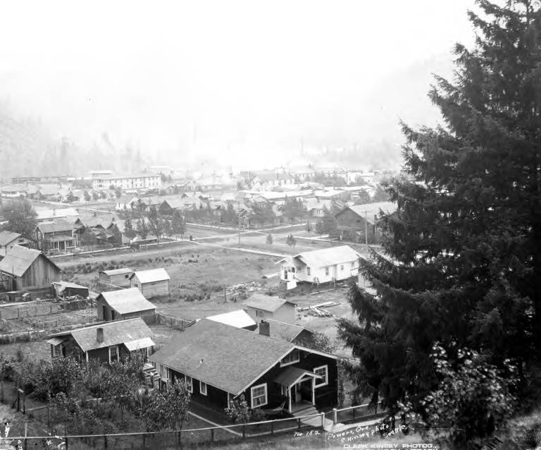 Caption on image: No. 152, Powers, Ore . PH Coll 516.4089 The Smith-Powers Logging Company was established in the early twentieth century in Coos County, Oregon. The town of Powers was named for Albert H. Powers in 1914. Powers served as the vice president and general manager of the Smith-Powers Logging Company, which served as a subsidiary to the C.A. Smith Lumber Company. Powers was born in 1861 in Ontario and moved to Marshfield (later to become known as Coos Bay) in 1907. He was a prominent figure in the Pacific Northwest lumber industry and was often referred to as "Uncle Al." He was active as head of the company from approximately 1907 to 1928. He died in 1930 in an automobile accident in Indio, California. The Smith-Powers Logging Company would eventually merge with the Coos Bay Lumber Company, which would later become part of the Georgia Pacific Corporation. (Sources: Hard Times in Paradise: Coos Bay, Oregon by William G. Robbins; "A Letter: Albert H. Powers" by Margaret Powers Hughes from the Oregon Historical Quarterly (1976); and Oregon Geographic Names by Lewis A. McArthur) Subjects (LCSH): xyz